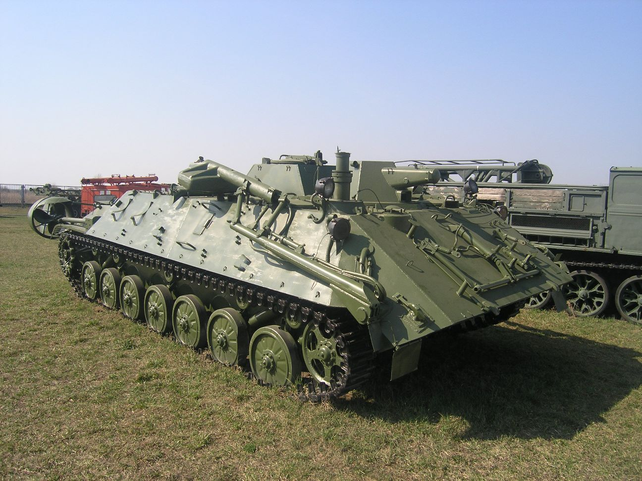 Engineering Reconnaissance Vehicle IRM in Technical Museum in Togliatti